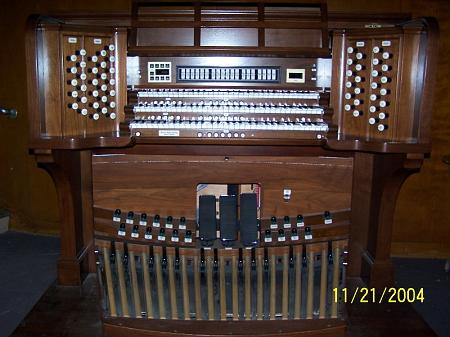 Hollywood High School E. M. Skinner Organ Opus 481-A